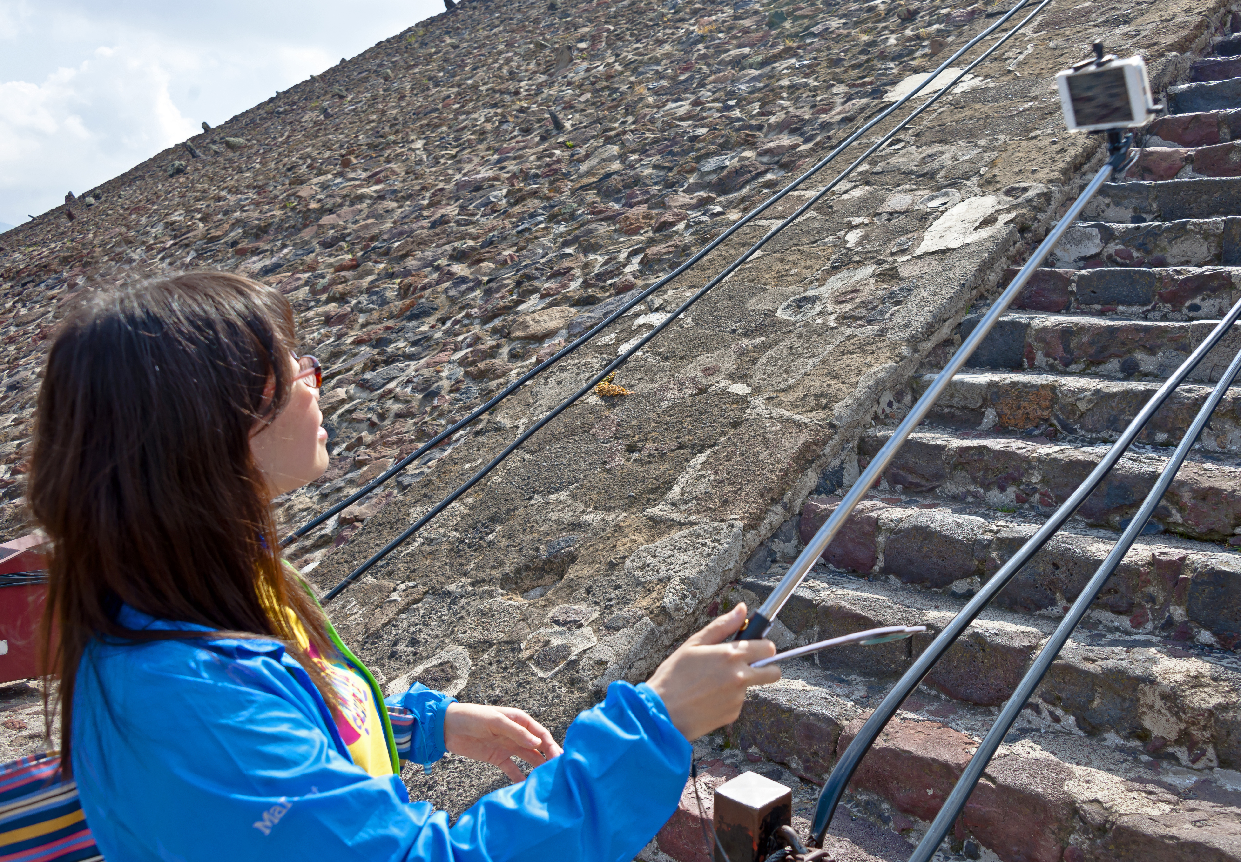 A woman uses a selfie stick to photograph herself climbing the Pirámide del Sol at Teotihuacan, Mexico.